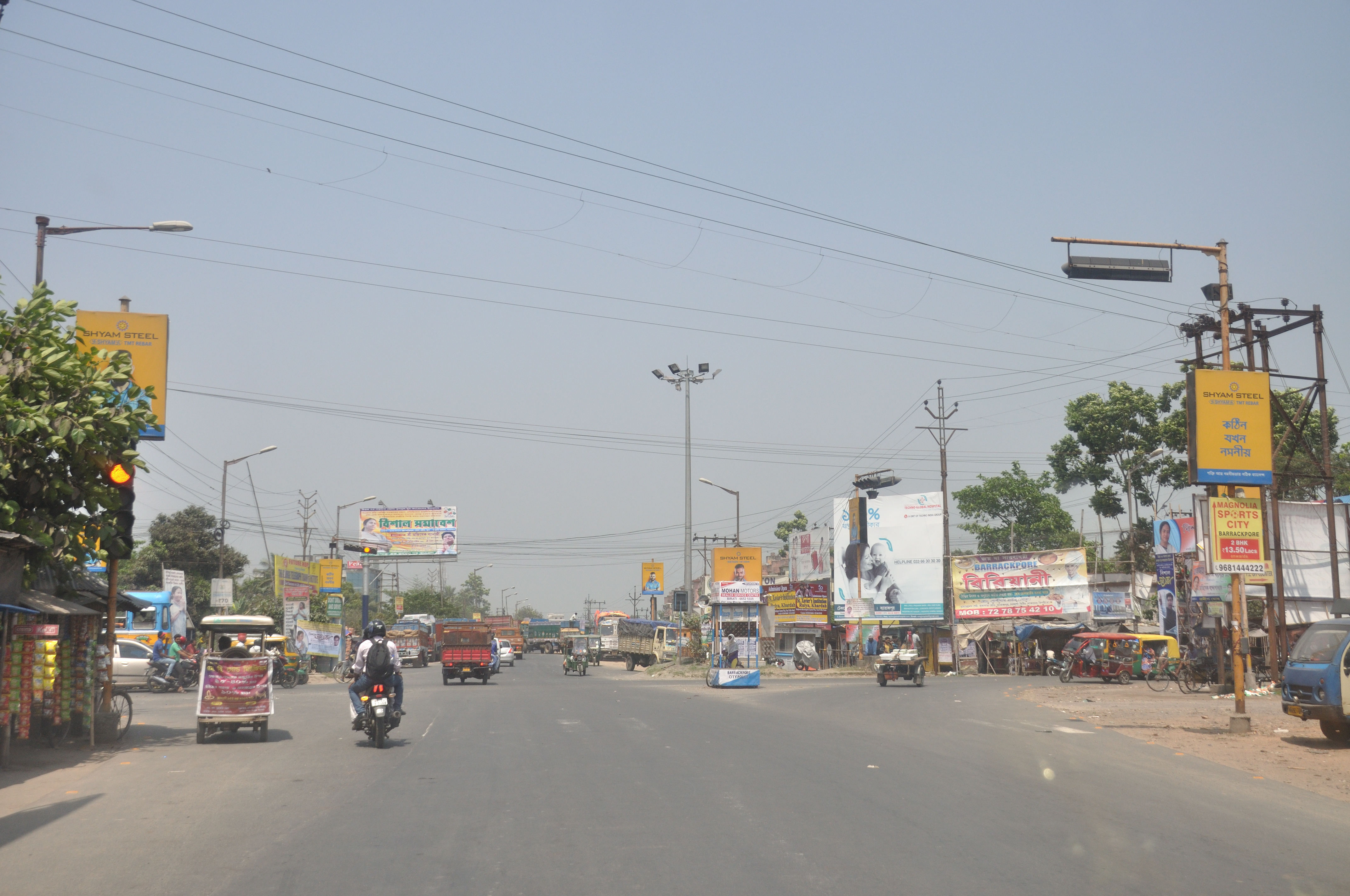 This photograph was taken in North 24 Parganas, West Bengal.